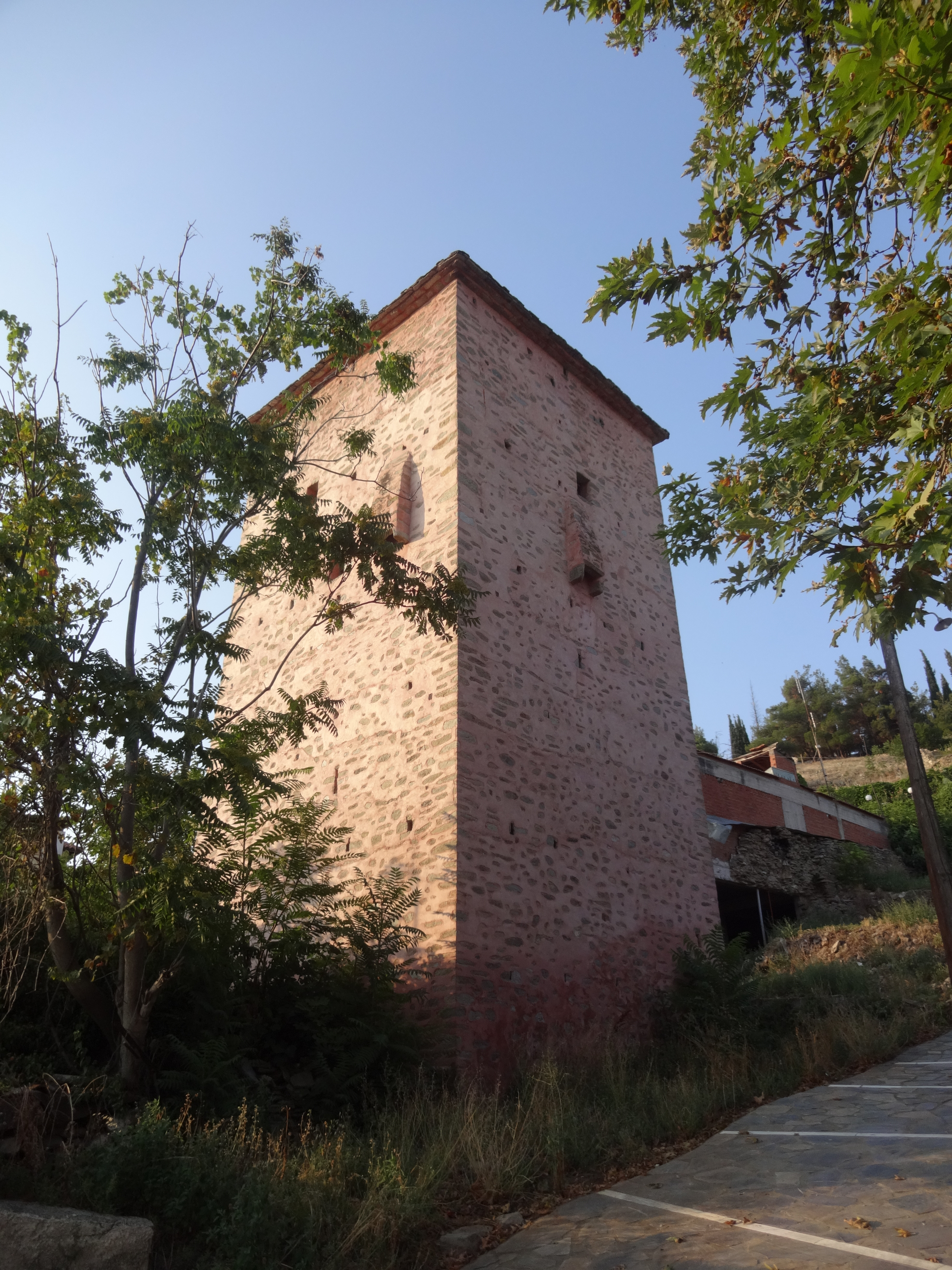 Tsaritsani, Greece. Defence family tower.